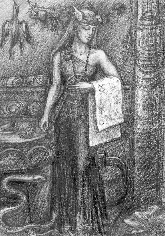 Jumyn udyr - goddess of the sky in the mari mythology